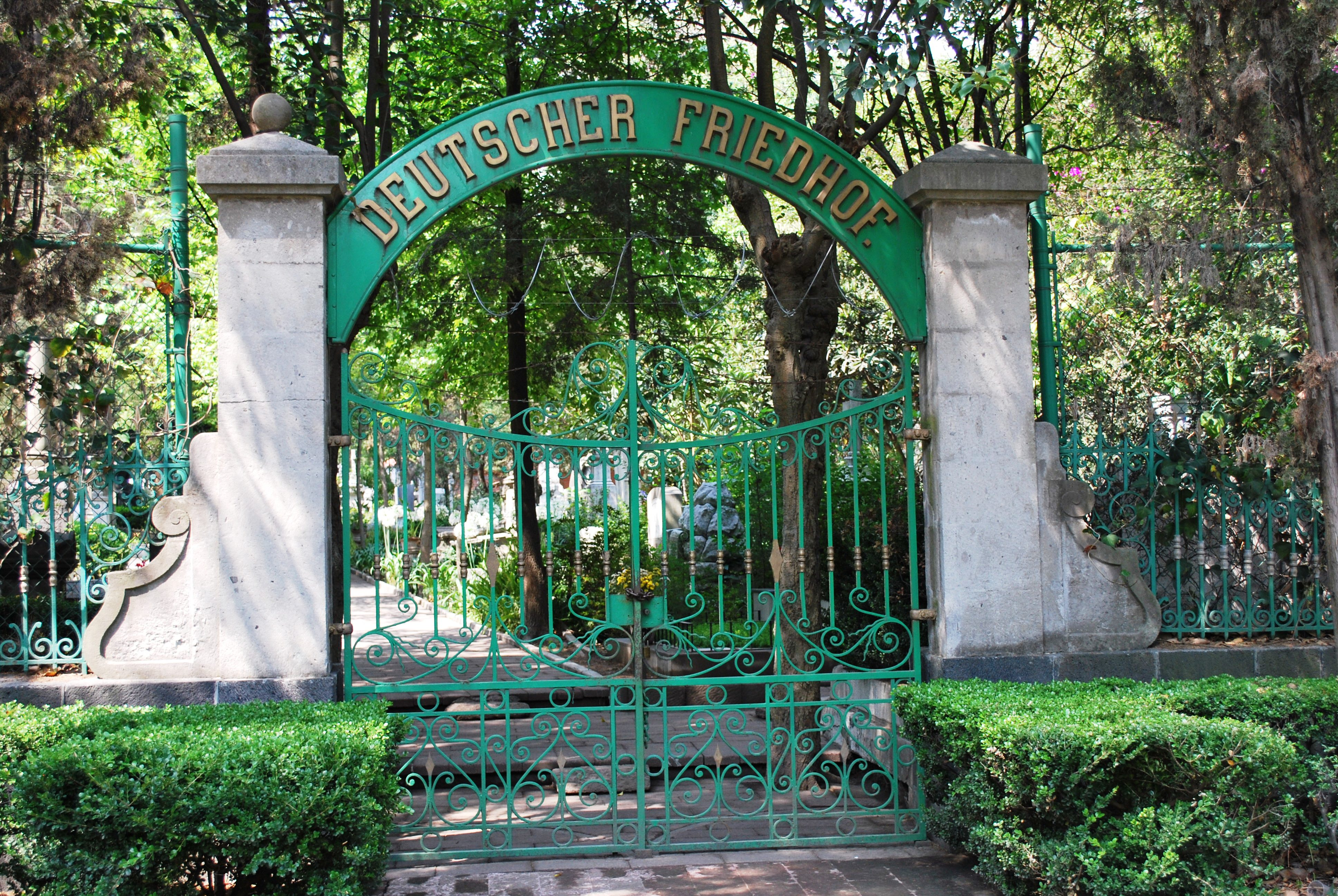 Entrance to the German section of the Panteon Civil de Dolores cemetery in Mexico City